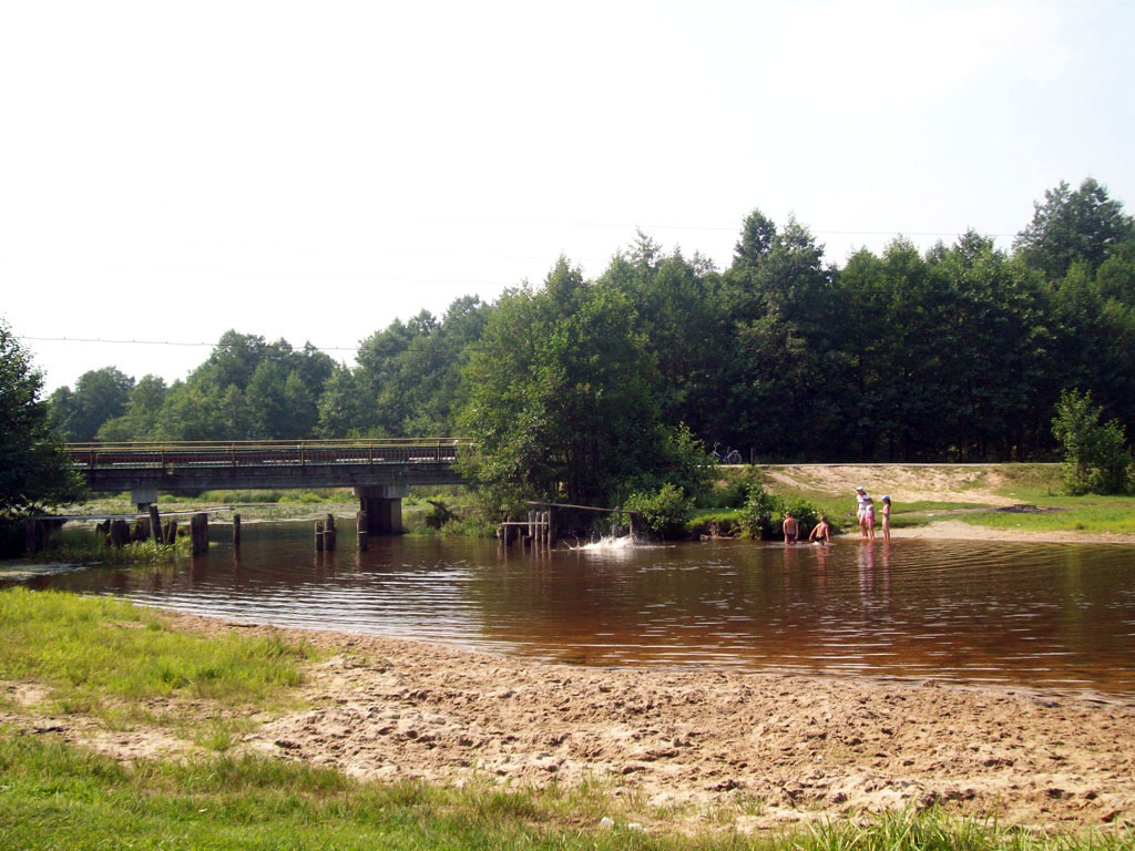 River Kursha near Kolesnikovo, Ryazan Oblast, Russia.